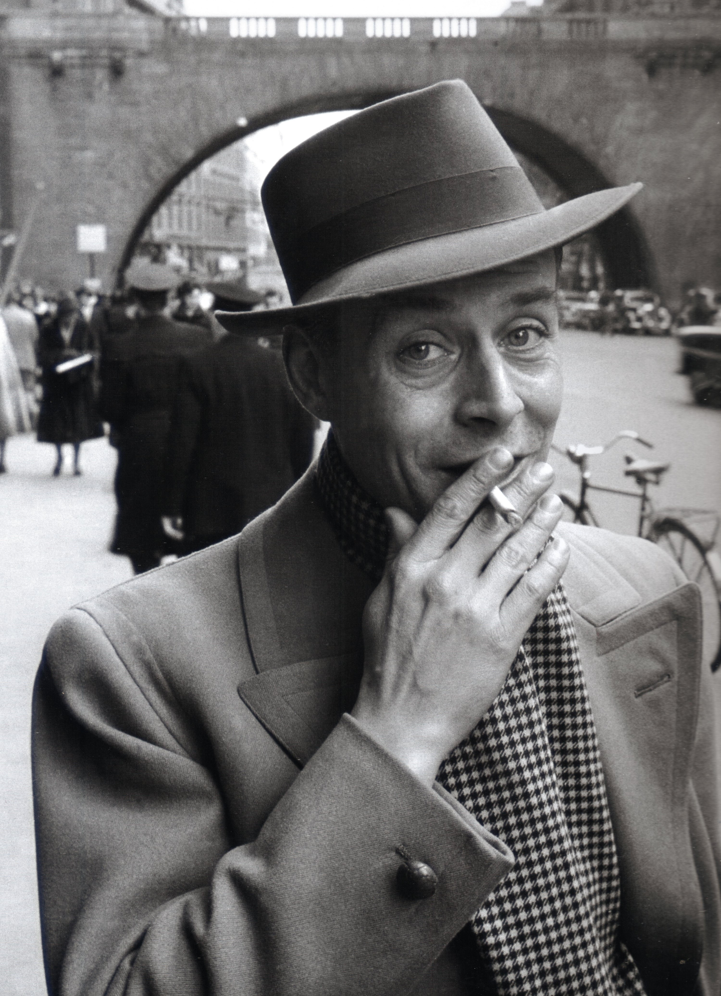 Actor and director Hasse Ekman on Kungsgatan street in Stockholm 1953.